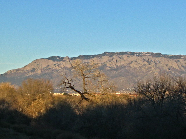 View of Sandia Mountain from Rio Grande Bosque in Albuquerque, New Mexico